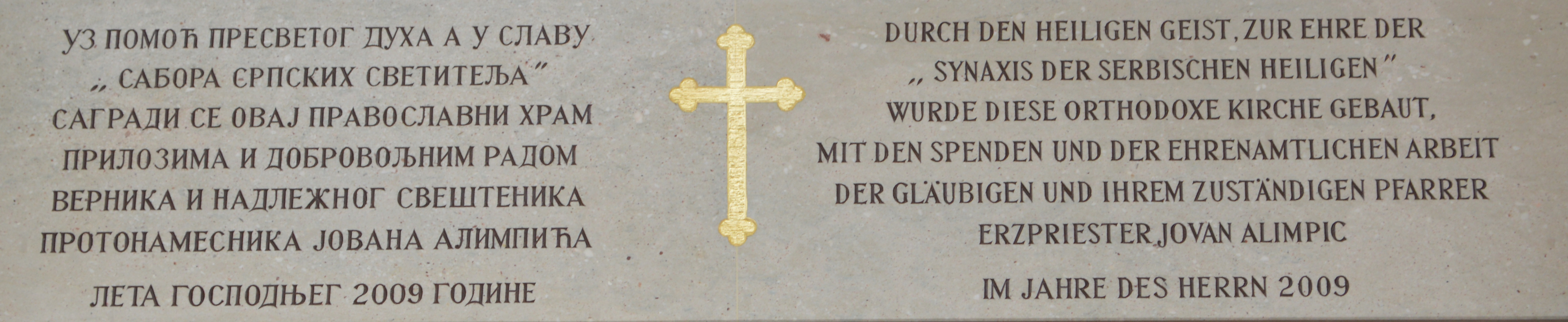 Serbic-orthodox church in Saalfelden